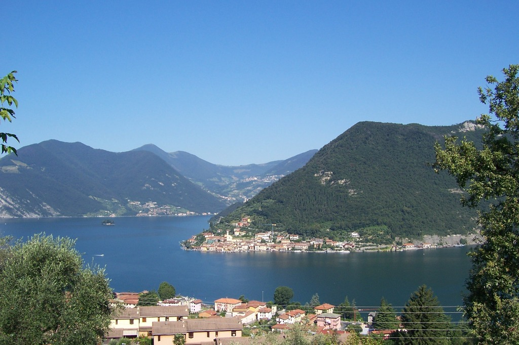 Montisola from sulzano